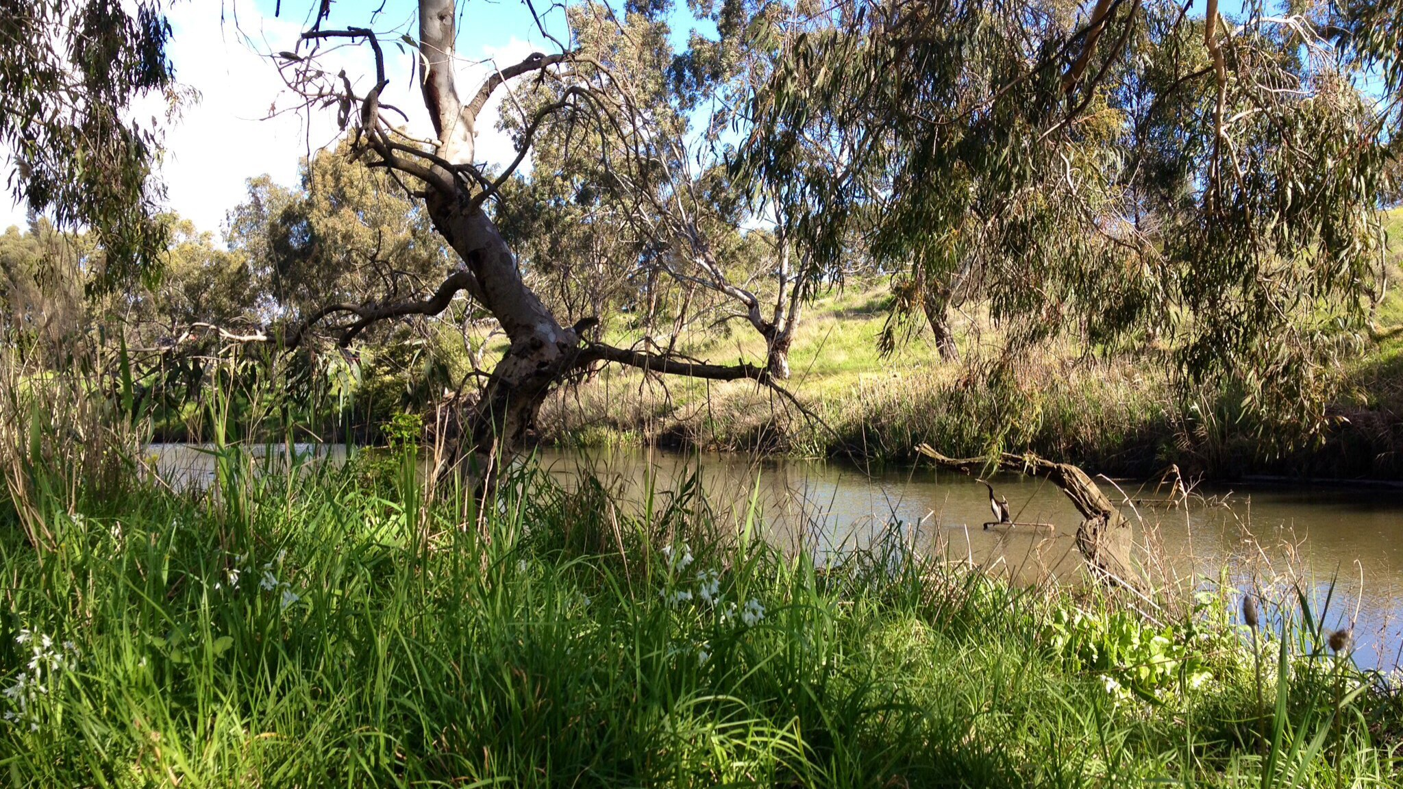 An Australasian Darter (Anhinga novaehollandiae) sunning itself in the middle of Kororoit Creek in Albion, Victoria, Australia.